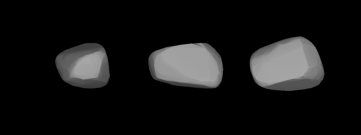 A three-dimensional model of 1996 Adams that was computed using light curve inversion techniques.